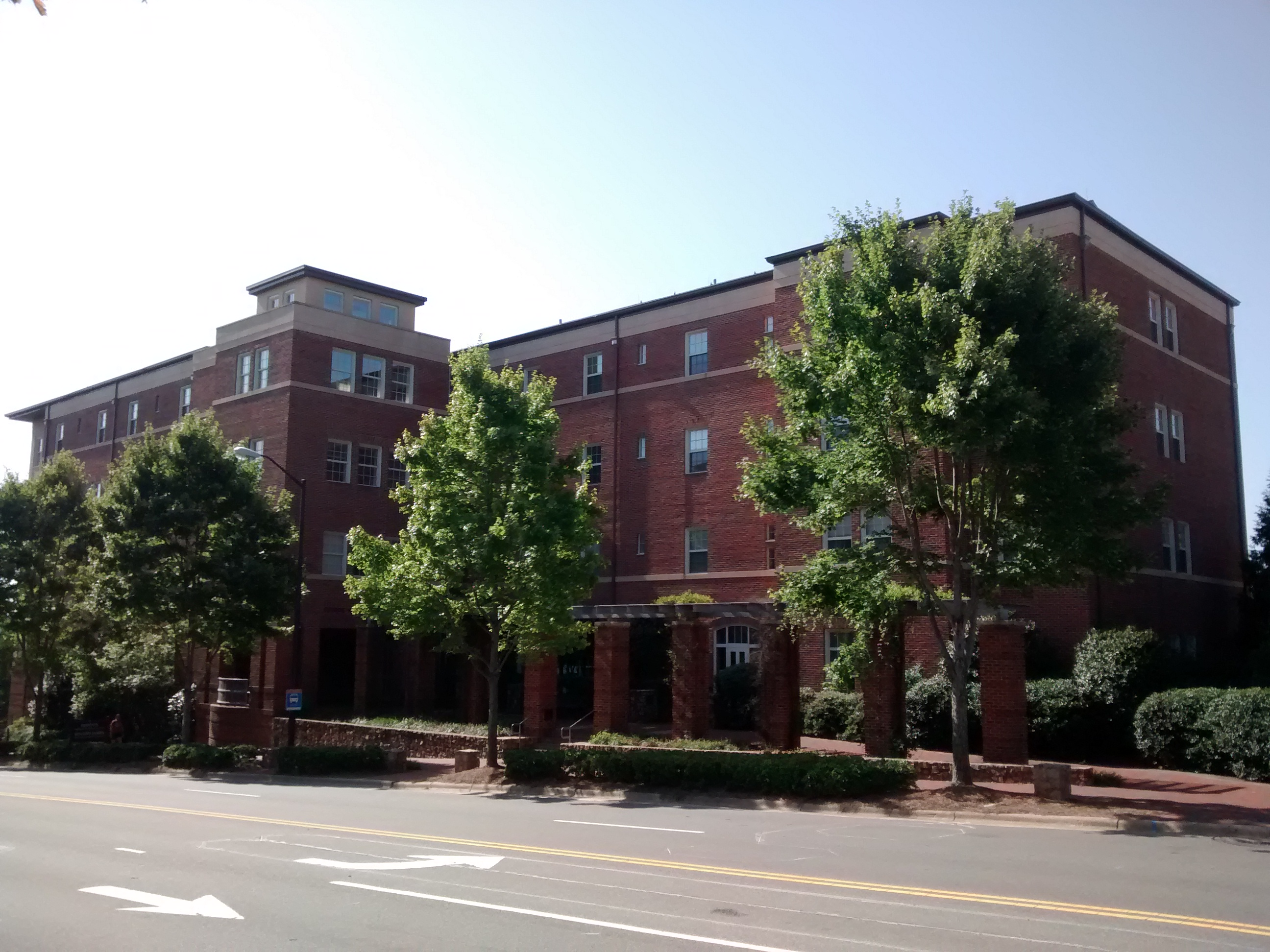 Horton Residence Hall at the University of North Carolina at Chapel Hill.